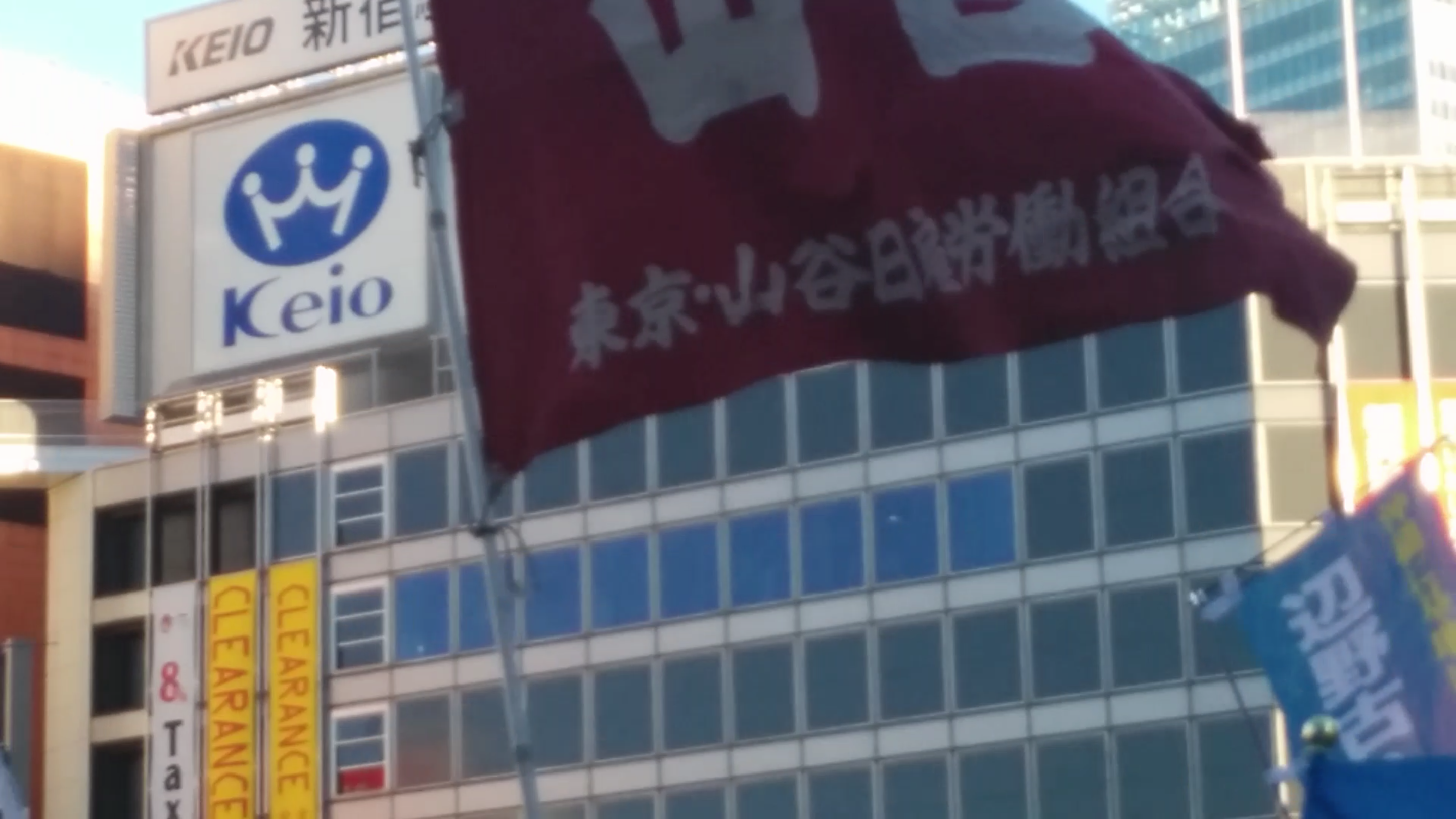 A Sanya flag at a protest in Shinjuku, Tokyo